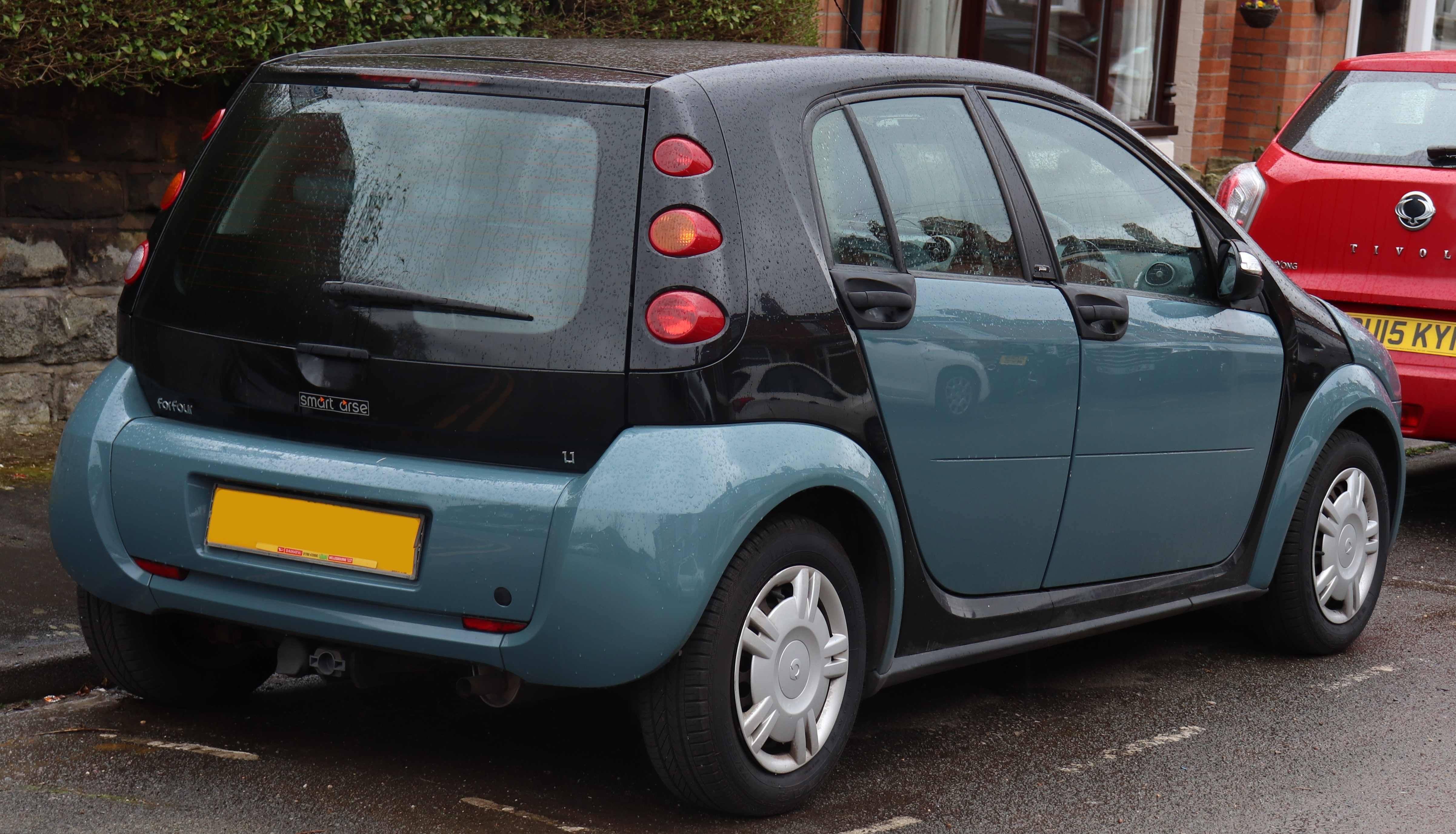 2005 Smart Forfour Pulse 1.1 Rear Taken in Warwick